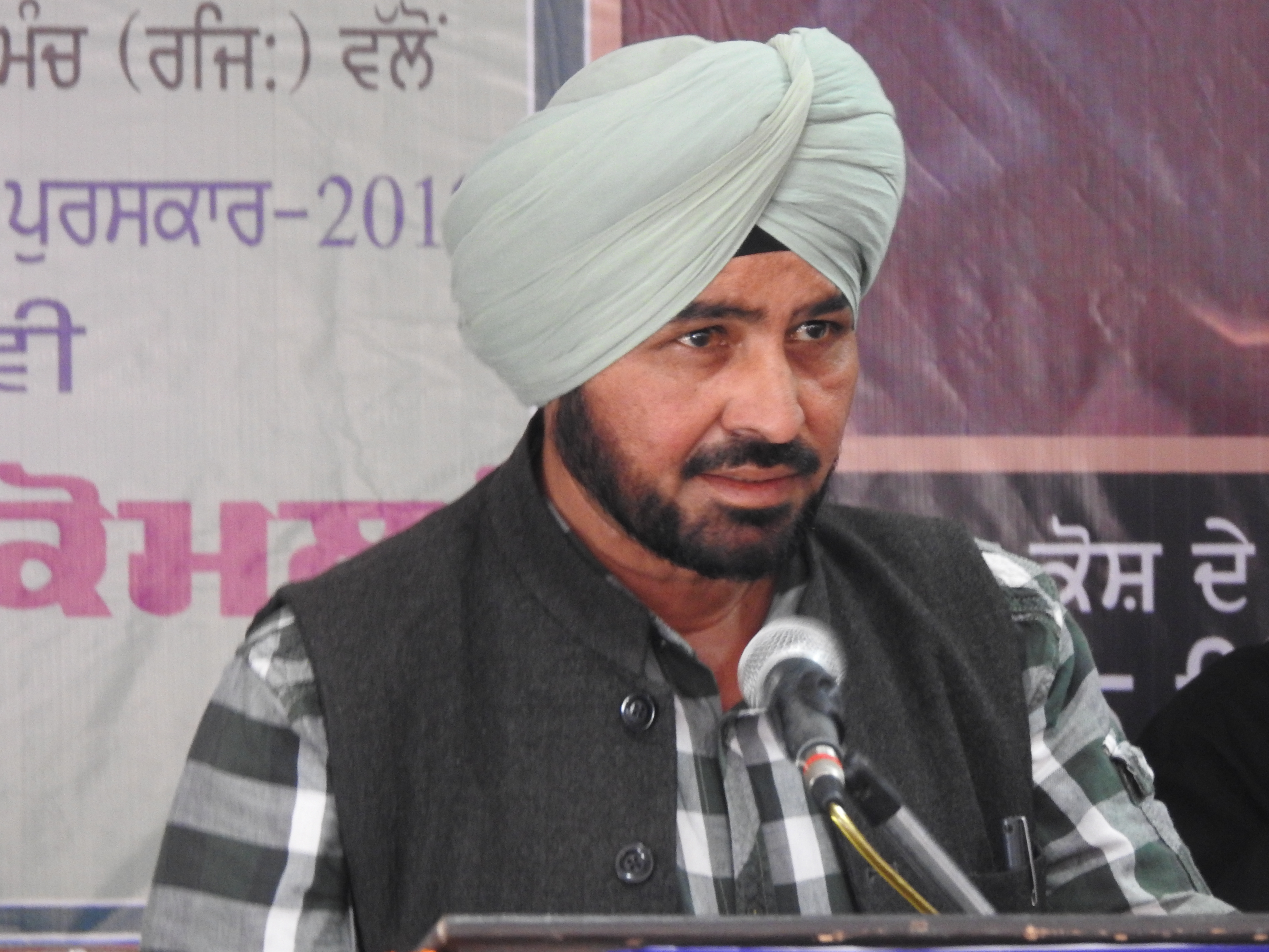 Bachan Bedil ,Punjabi language poet,Punjab,India